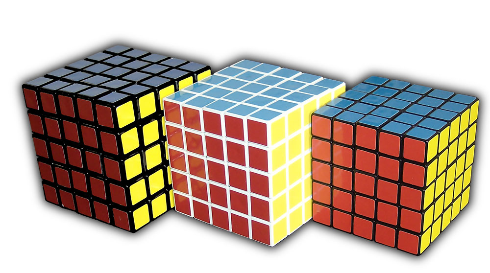 Three 5×5×5 cubes lined up. From left to right: Official Rubik's 5×5×5 cube, V-Cube 5, Eastsheen 5×5×5.